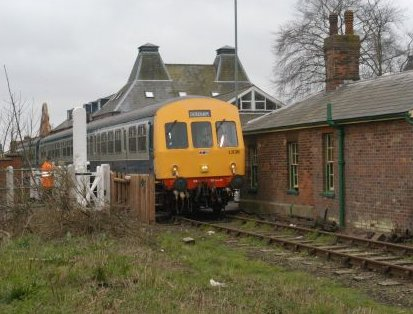 Train at Dereham railway station. Self-taken photo, public domain